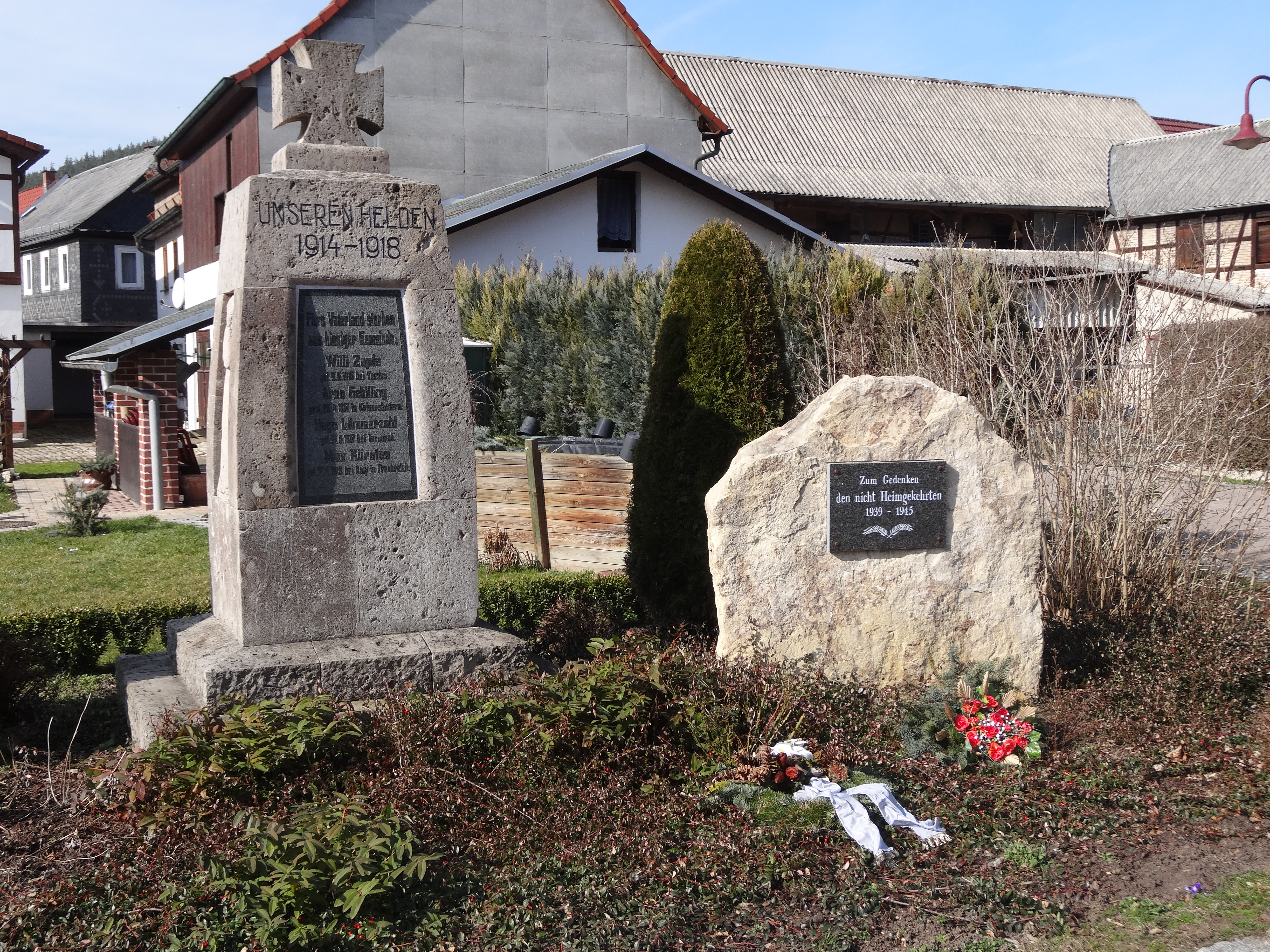 War memorials in Leutnitz, Thuringia, Germany